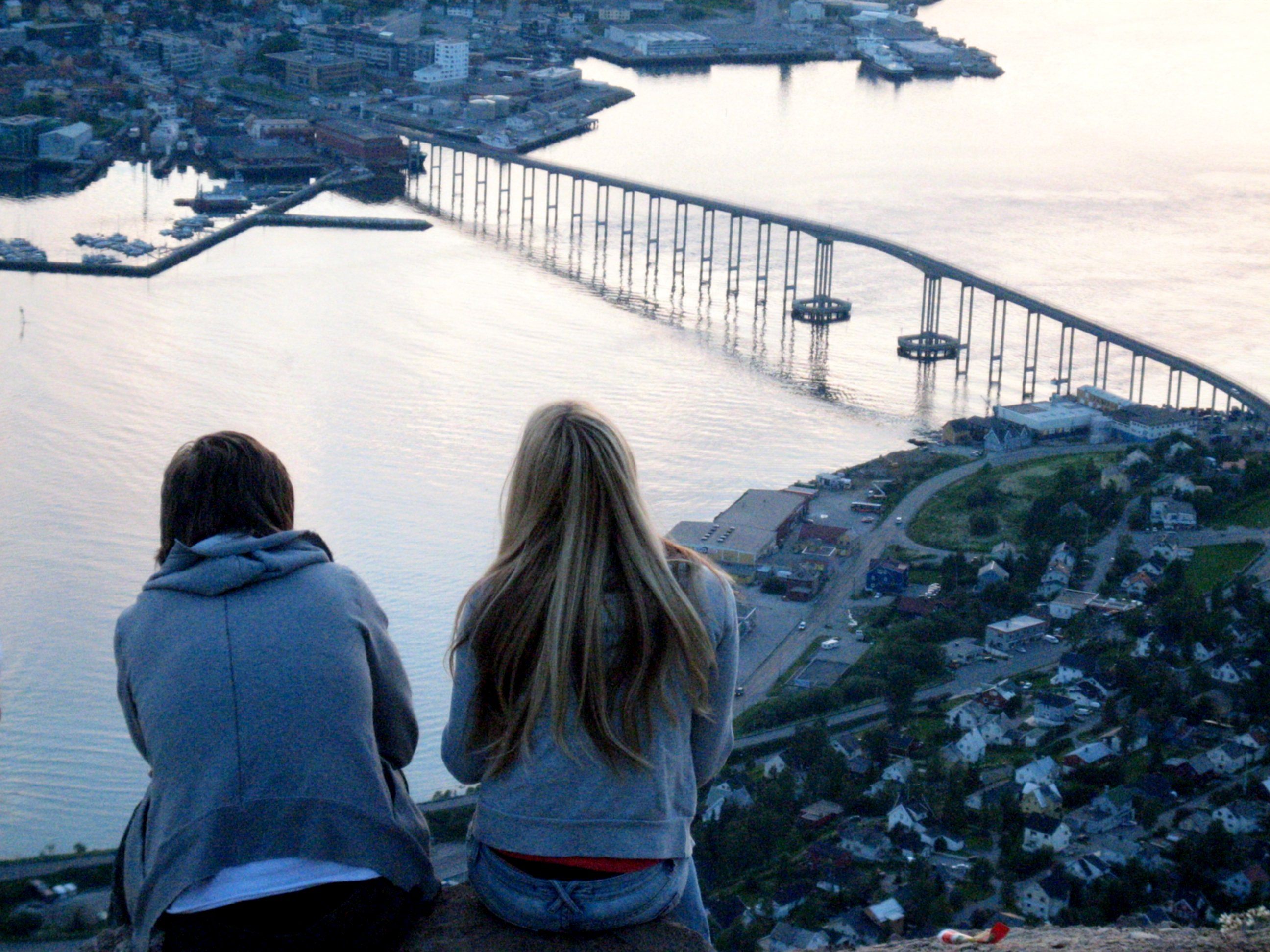 Tromsø in the midnight sun, view from the Storsteinen